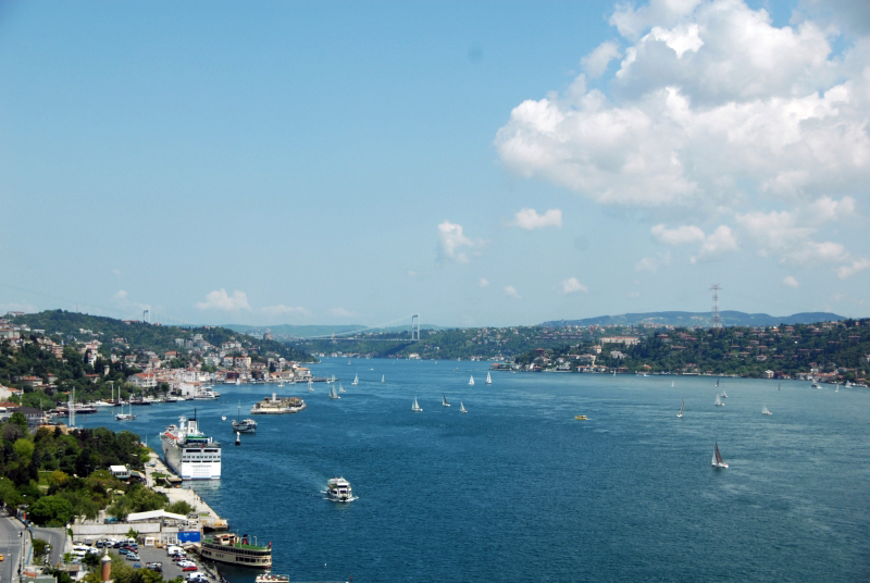 Istanbul bosphorus from bosphorus bridge